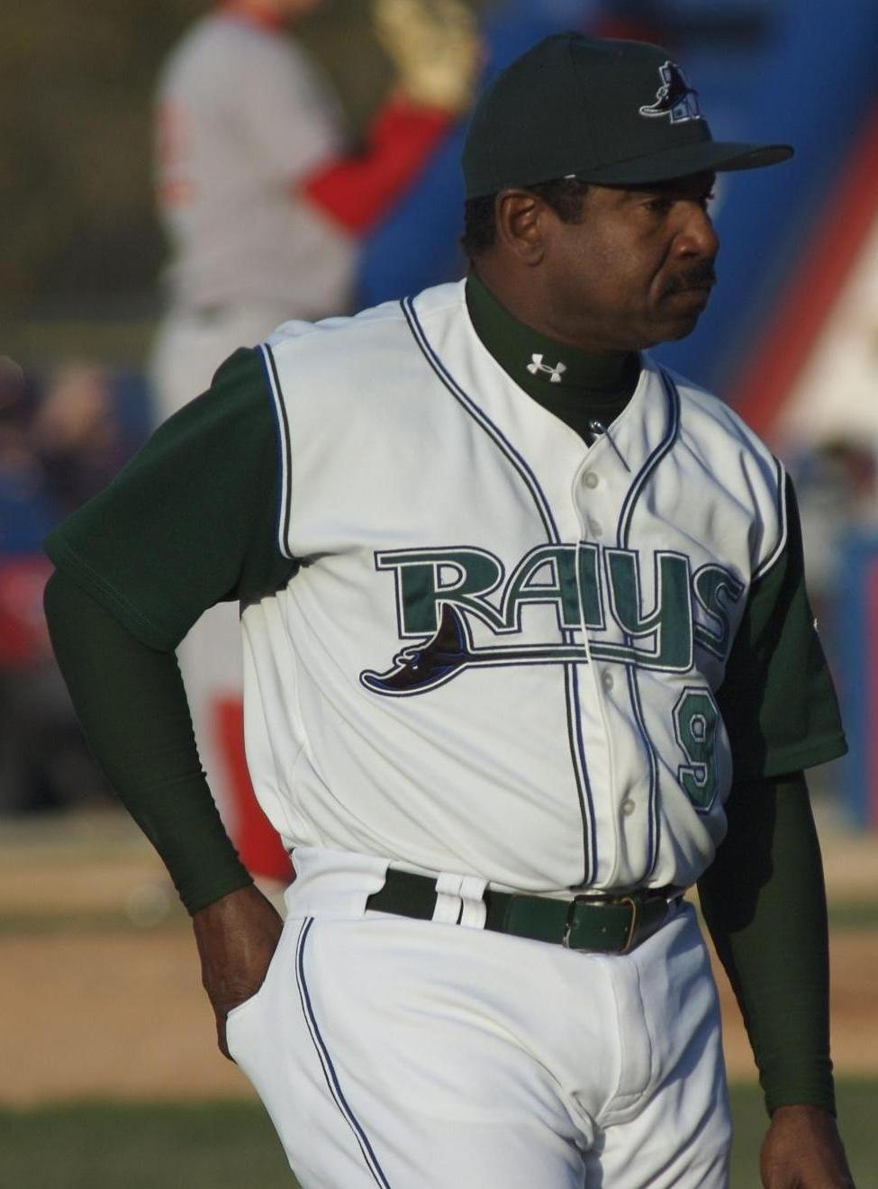 Skeeter Barnes; Cedar Rapids @ Southwest Michigan 042406